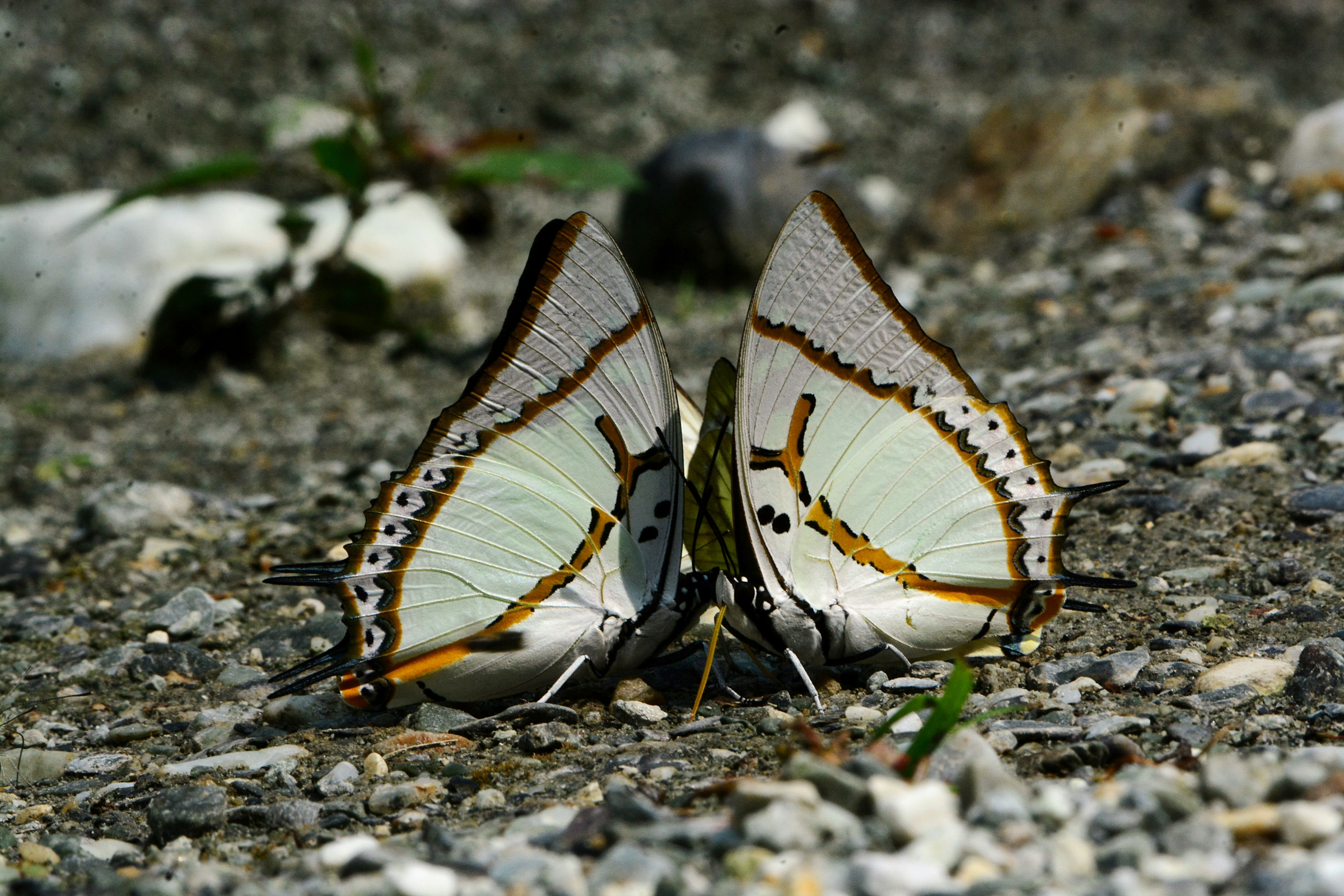 Close wing position of Great Nawab ("Charaxes eudamippus")